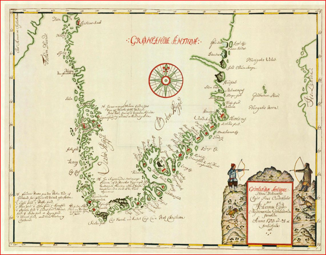 Hans Egede drafted this map of Greenland: Grønlandiæ Antiqva, the two people show an Inuit and a Norse from an old inuit myth